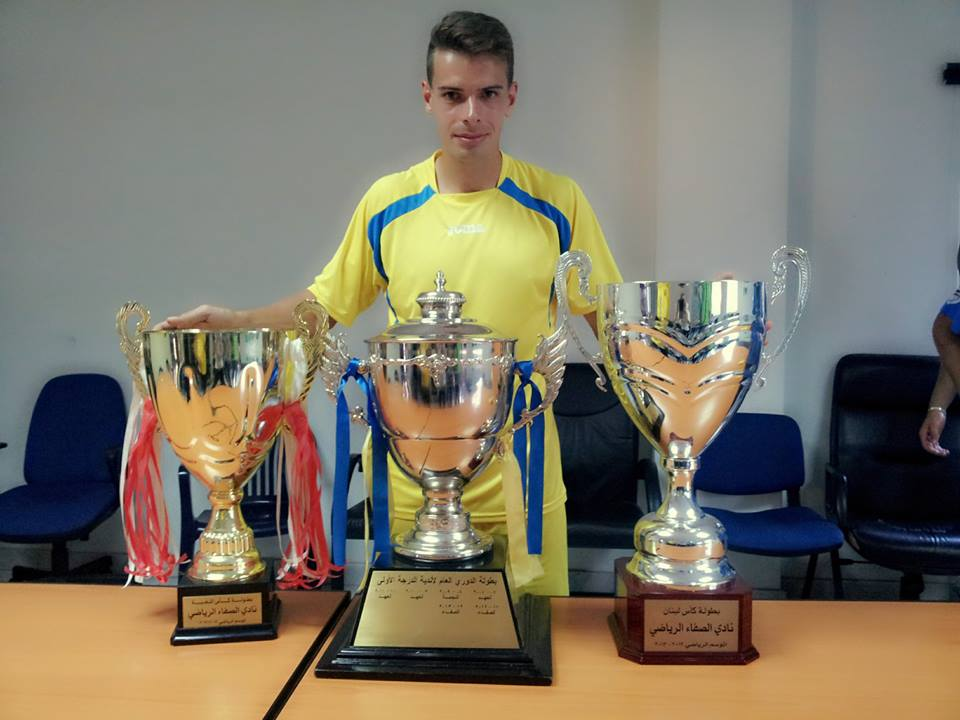 Munier Raychouni